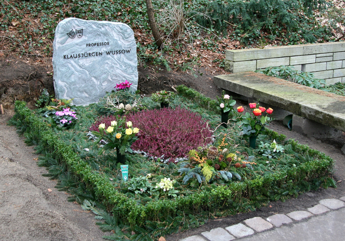 Tomb of actor Klausjürgen Wussow